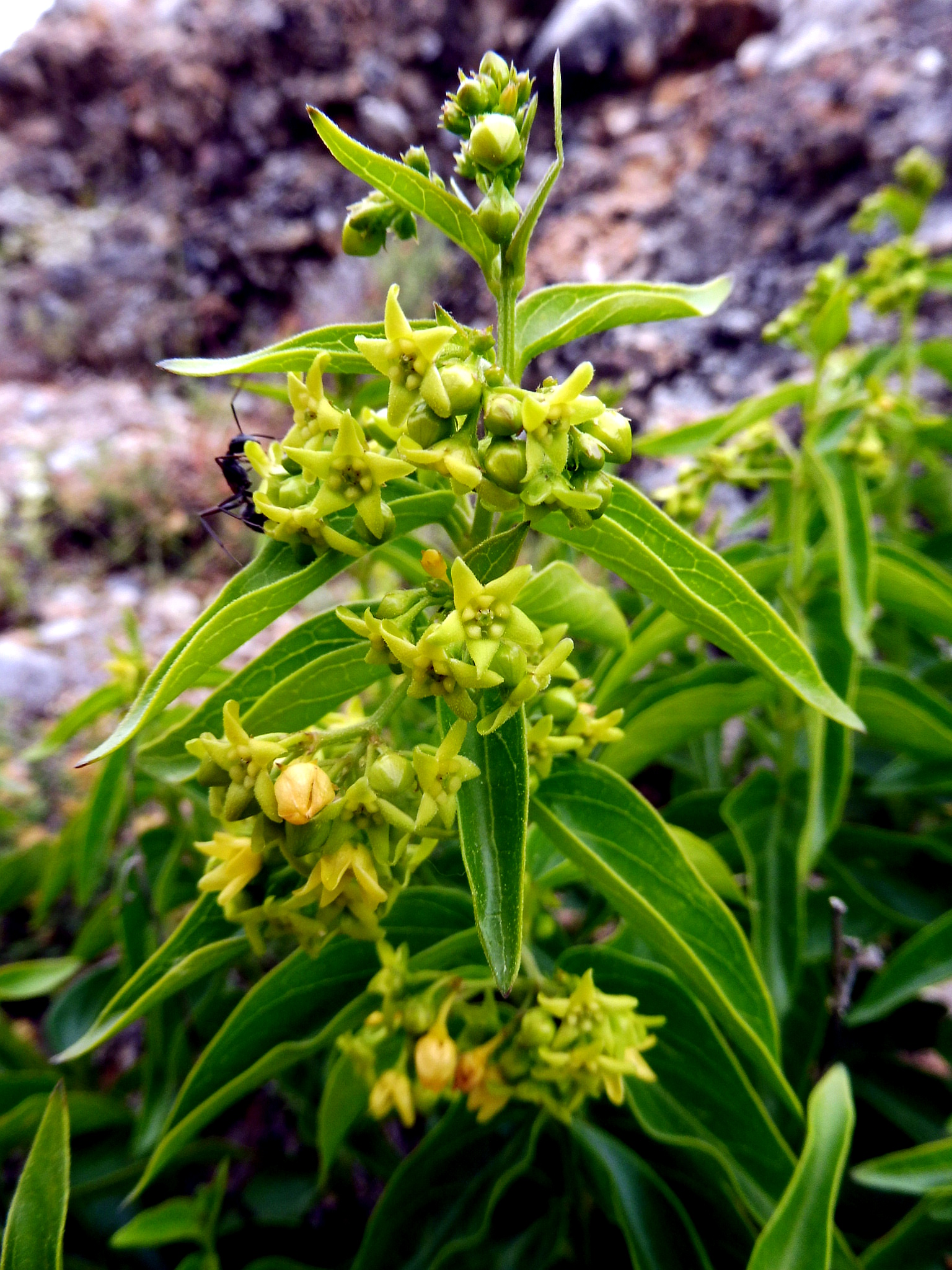 Vincetoxicum hirundinaria. In serrat de Sòbol (Solsonès -Catalunya). To 1.350 m altitude This is a a photo of a natural area in Catalonia, Spain, with id: ES510197